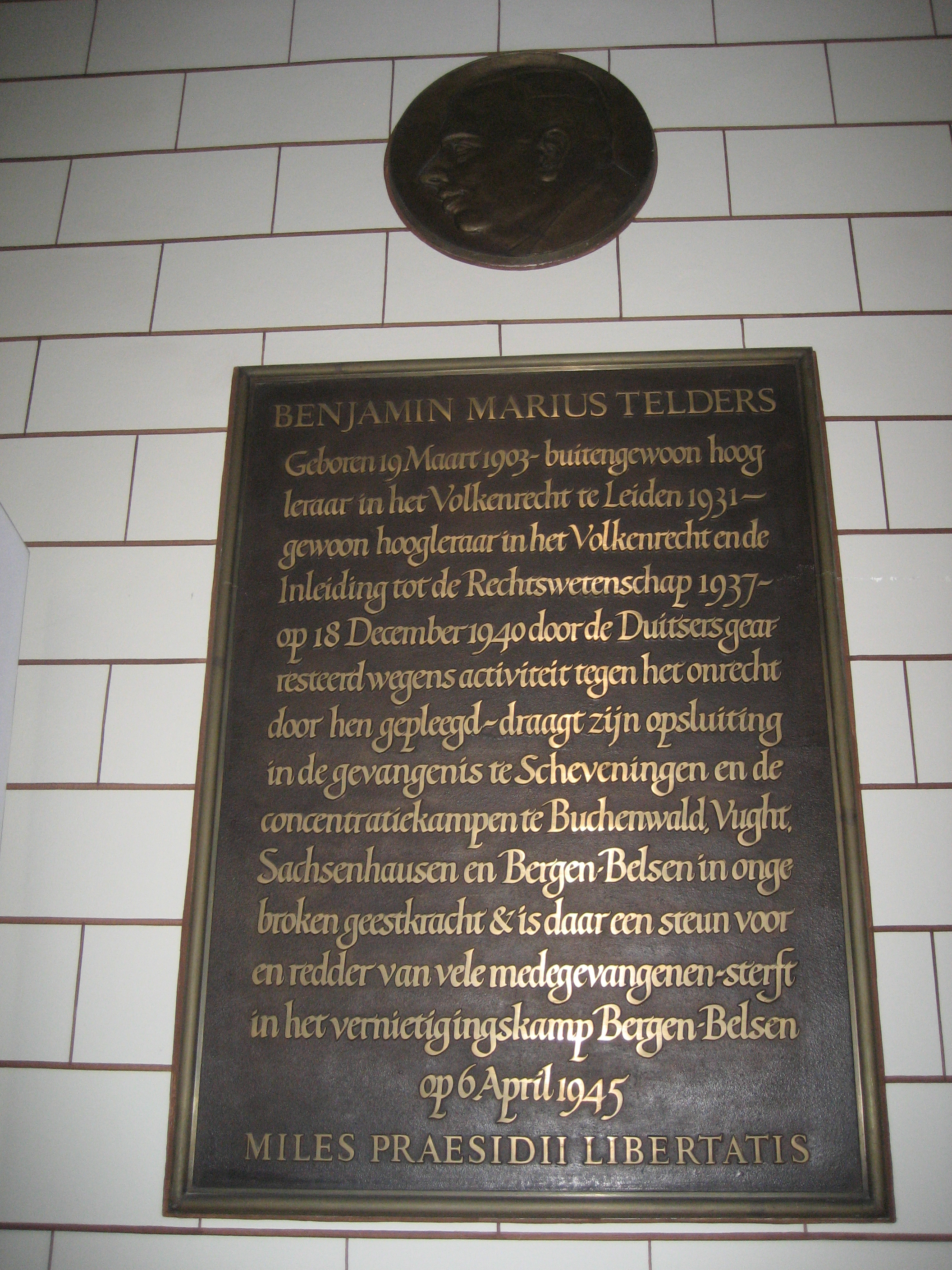 Plaque in commemoration of Prof. Ben Telders. Academiegebouw Leiden (The Netherlands).